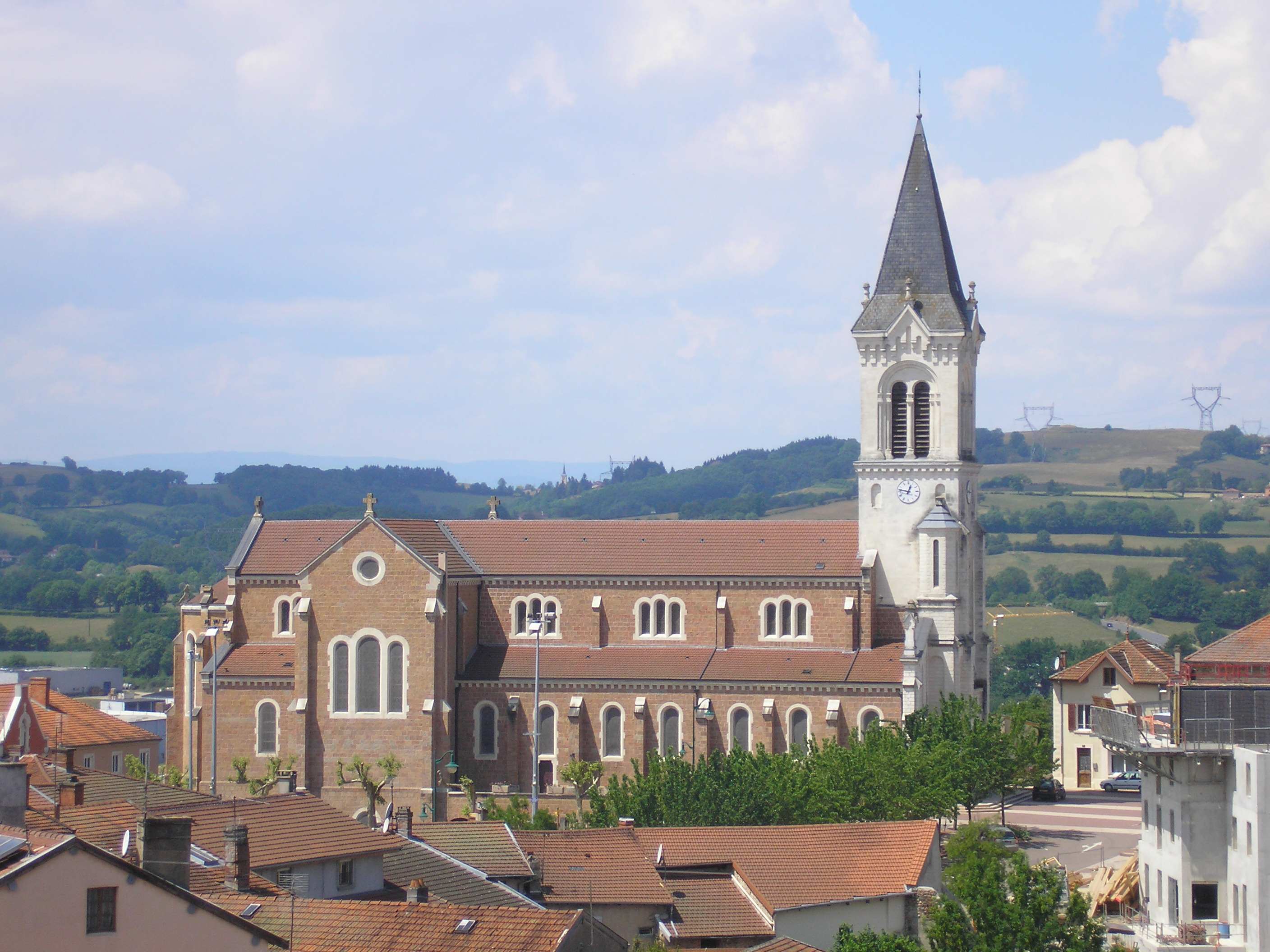 Bourg-de-Thizy's church